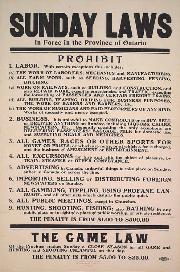 A broadside setting out the list the activities that were prohibited on Sundays in Ontario in 1911. Restrictions such as these helped earn Toronto, the capital of Ontario, the nicknames "Toronto the Good" and the "Methodist Rome".